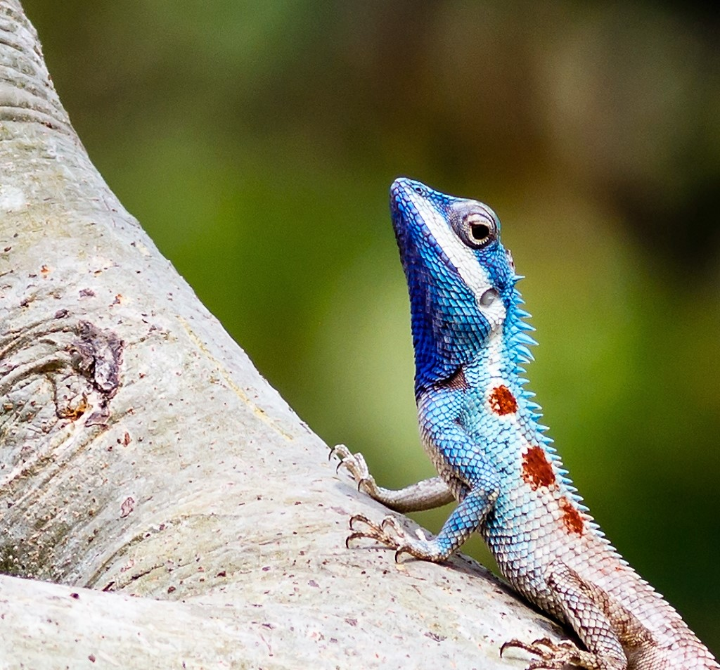 A very colourful and common lizard. This one found in my garden.